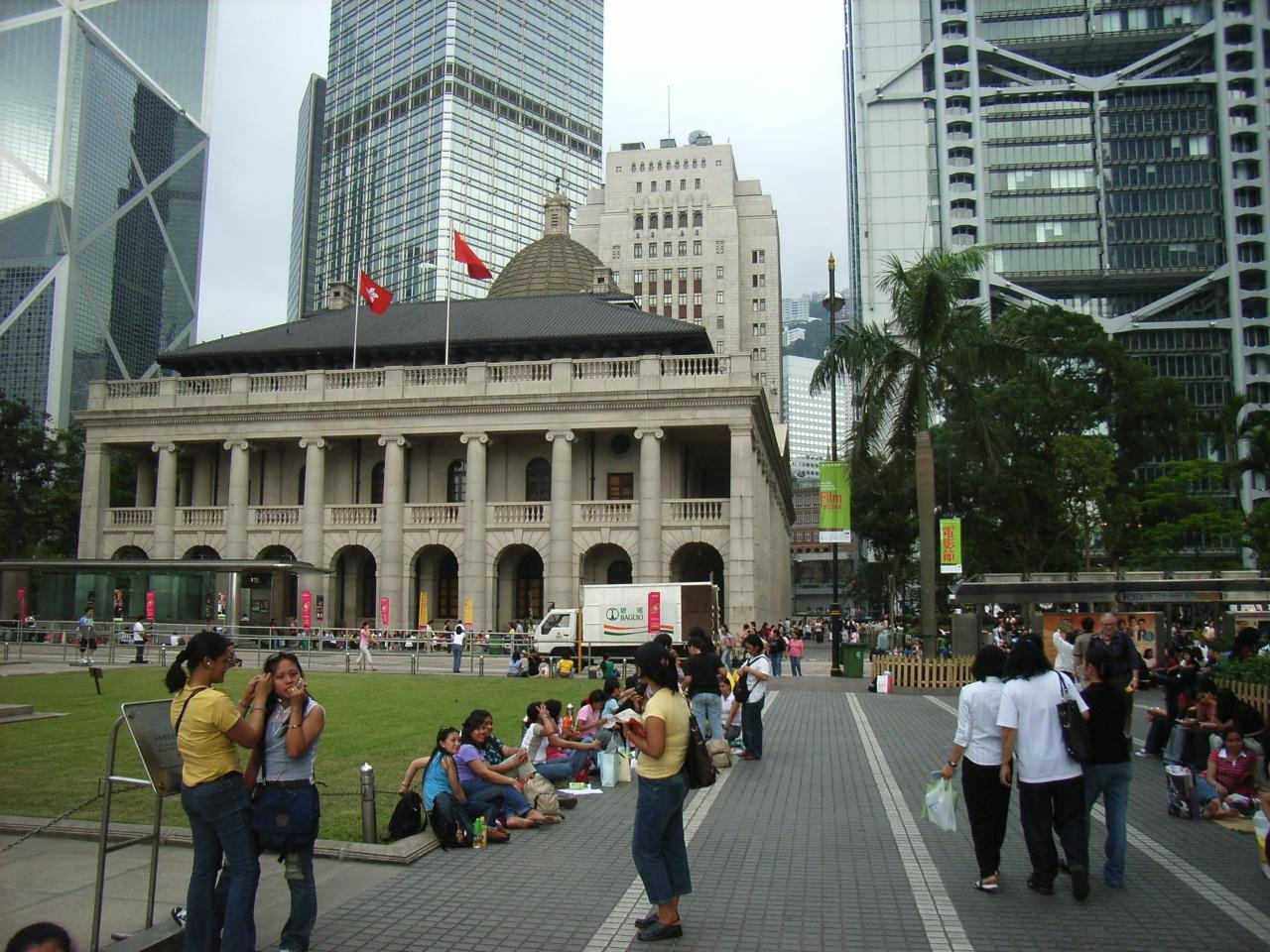 The Chater Road, Central, HK PC652107